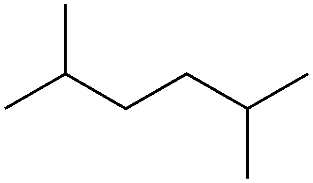 chemical structure of 2,5-dimethylhexane